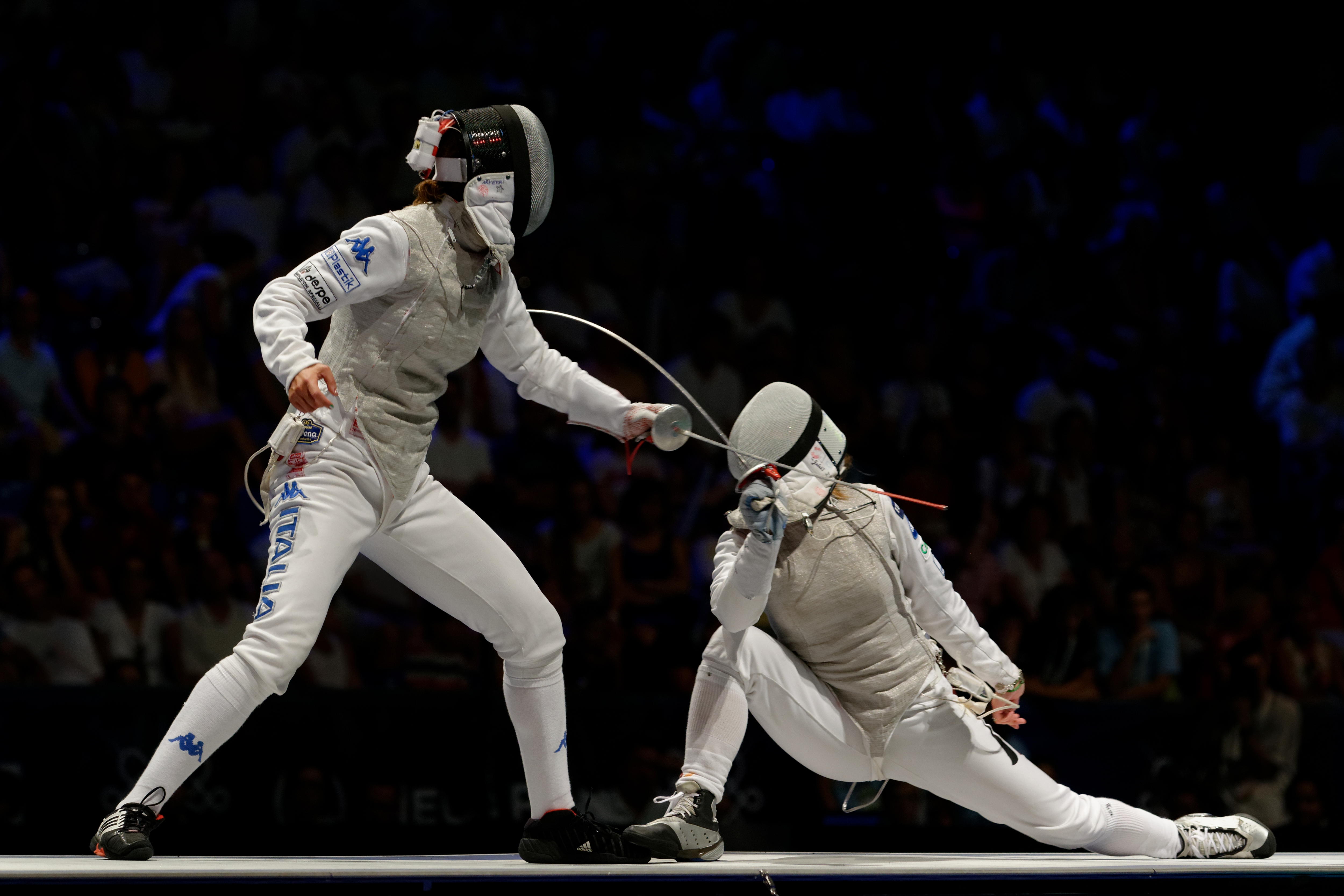 Italy's Arianna Errigo (L) competes against Carolin Golubytskyi of Germany (R) in the final of the women's foil event in the 2013 World Fencing Championships 2013 at Syma Hall in Budapest, 10 August 2013.